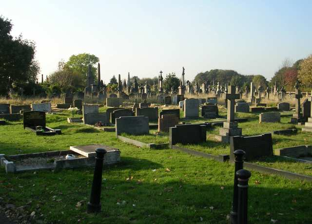 Undercliffe Cemetery - Undercliffe Lane